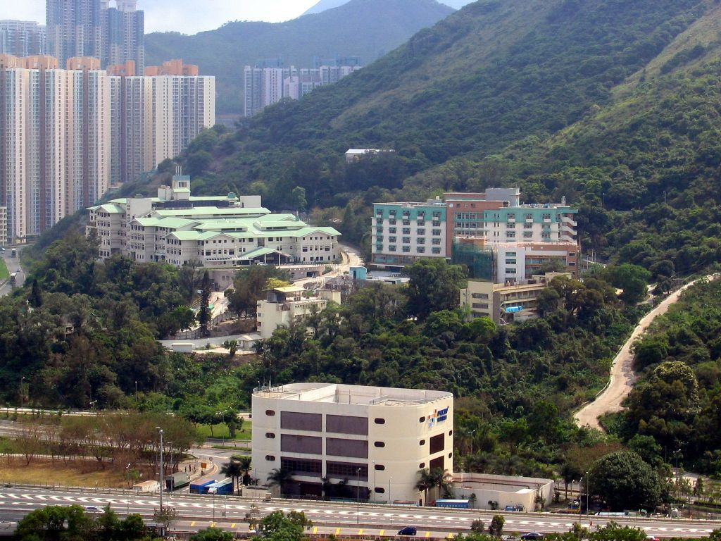 將軍澳-靈實醫院 Haven of Hope Hospital, Tseung Kwan O